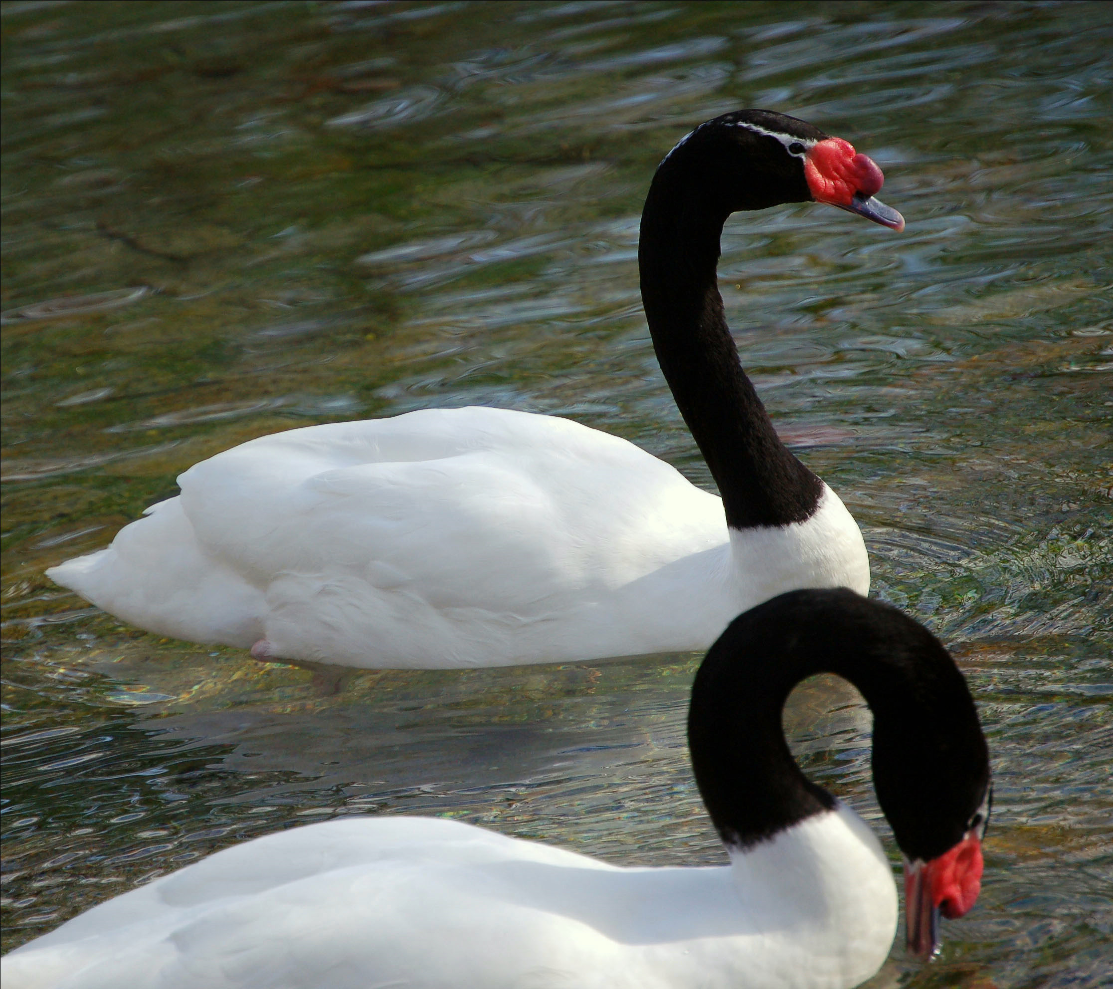 The Black-necked Swan (Cygnus melancoryphus) at Philadelphia Zoo. Photograph shows two swimming on water.